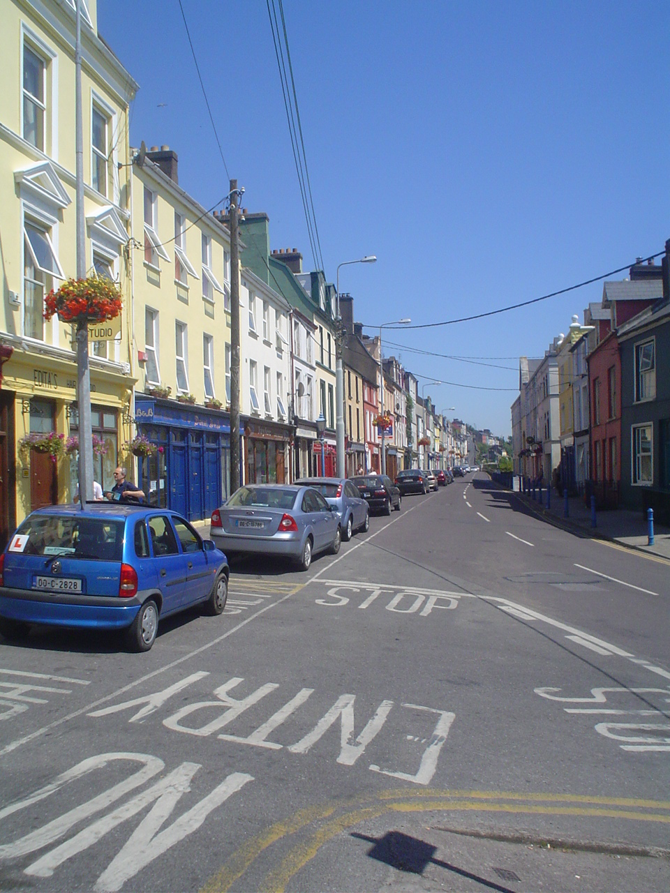 Cobh street